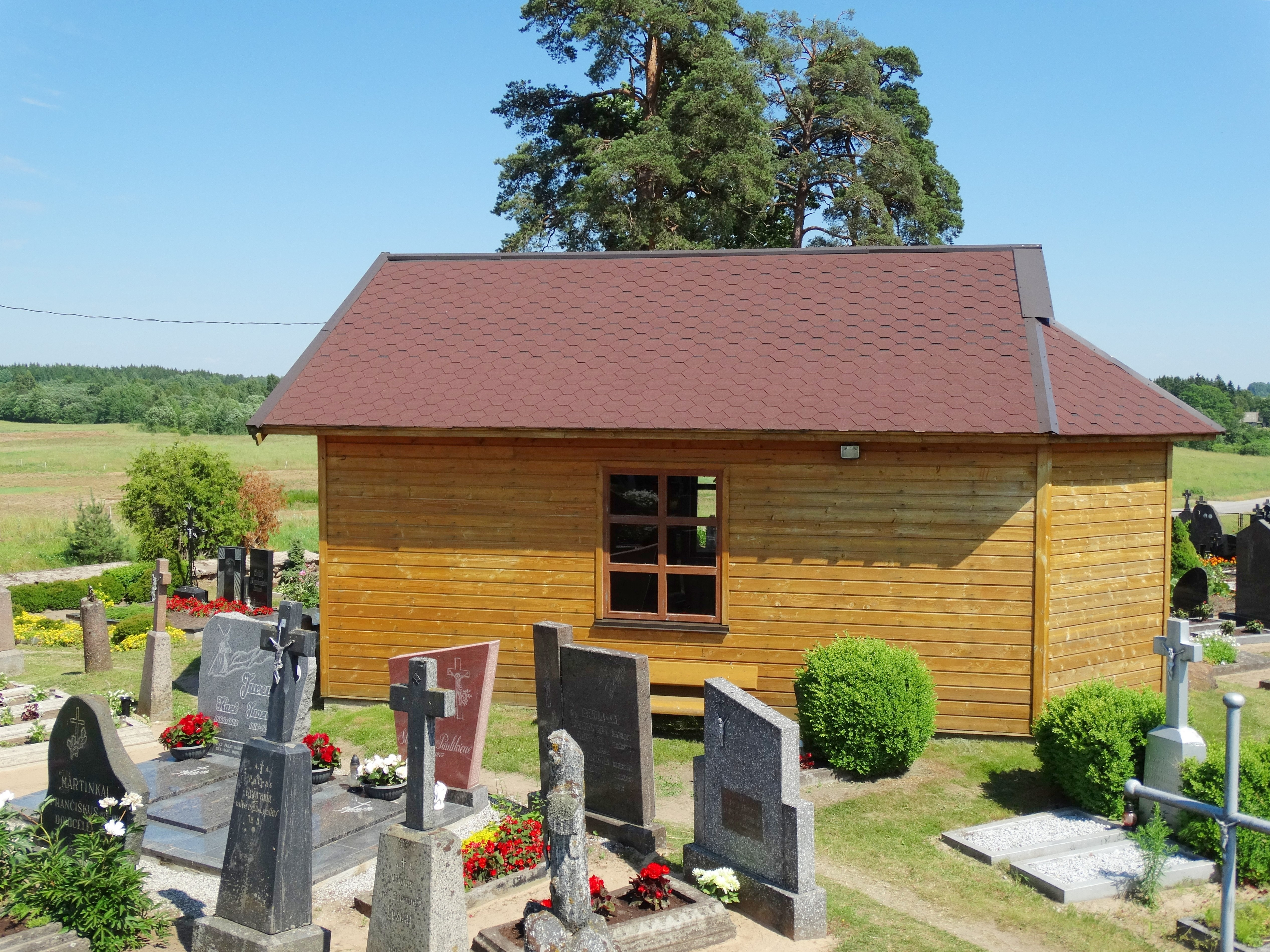 Chapel in Medingėnai, Rietavas Municipality, Lithuania